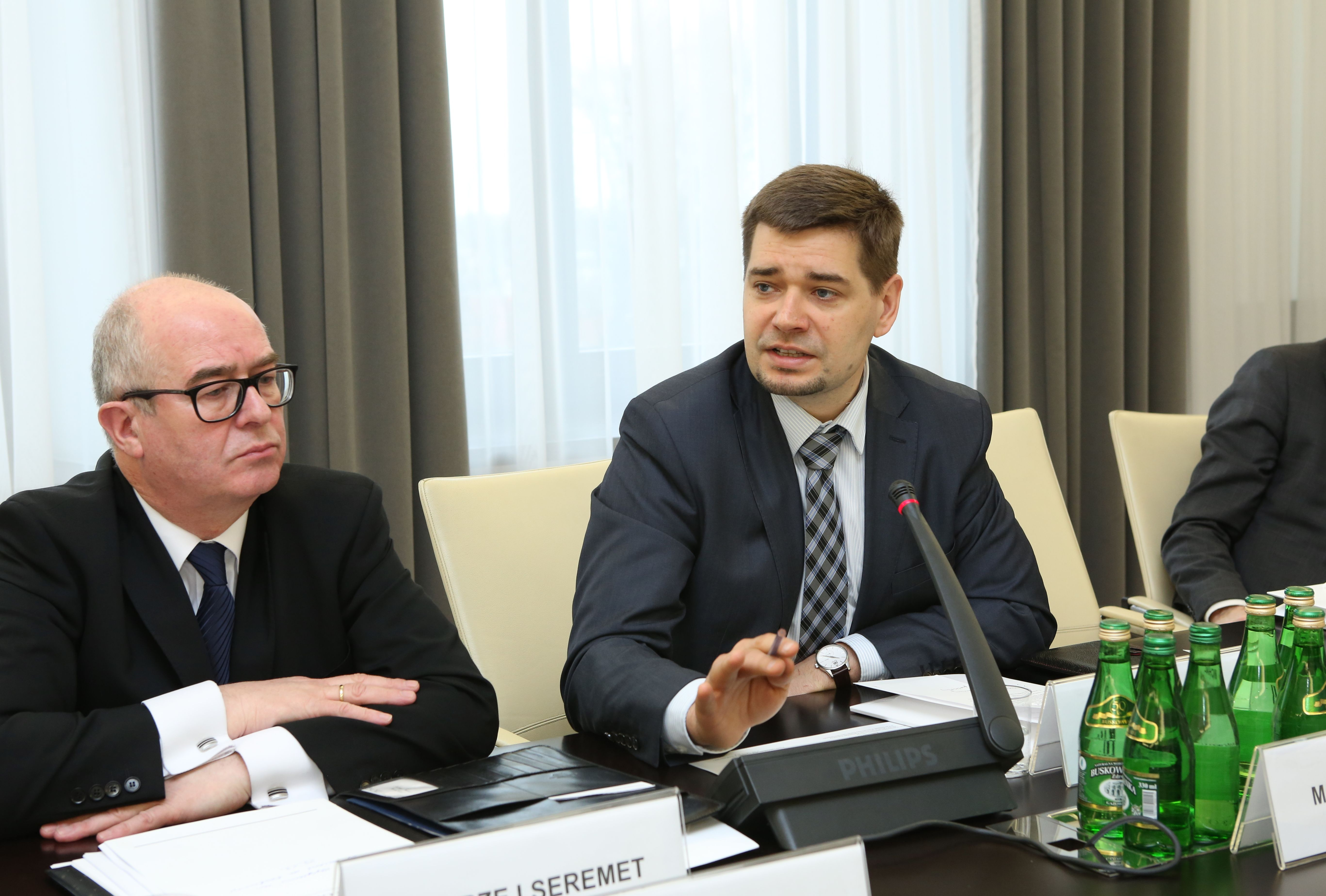 Andrzej Seremet and Michał Królikowski during the conference "Model and role of public prosecutor's office in the system of state organs" in the Polish Senate